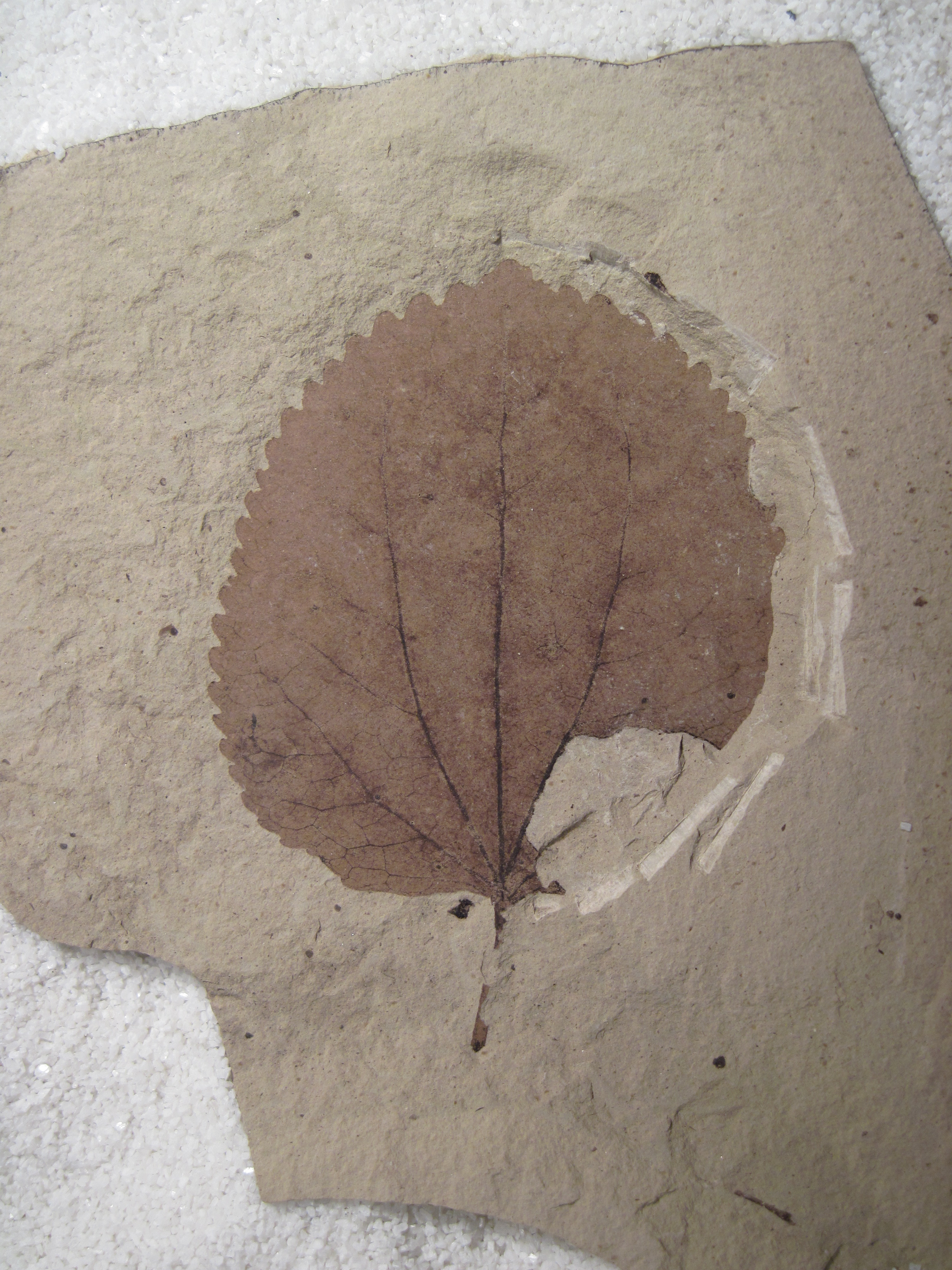 A 4.5 cm (1.8 in) tall leaf from the extinct Trochodendraceae species Tetracentron hopkinsii. 49 million years old, "Boot hill site" Klondike Mountain Formation, Republic, Washington. Stonerose Interpretive Center Collections #SR-02-28-07. Identified by Dr. Kathleen Pigg.